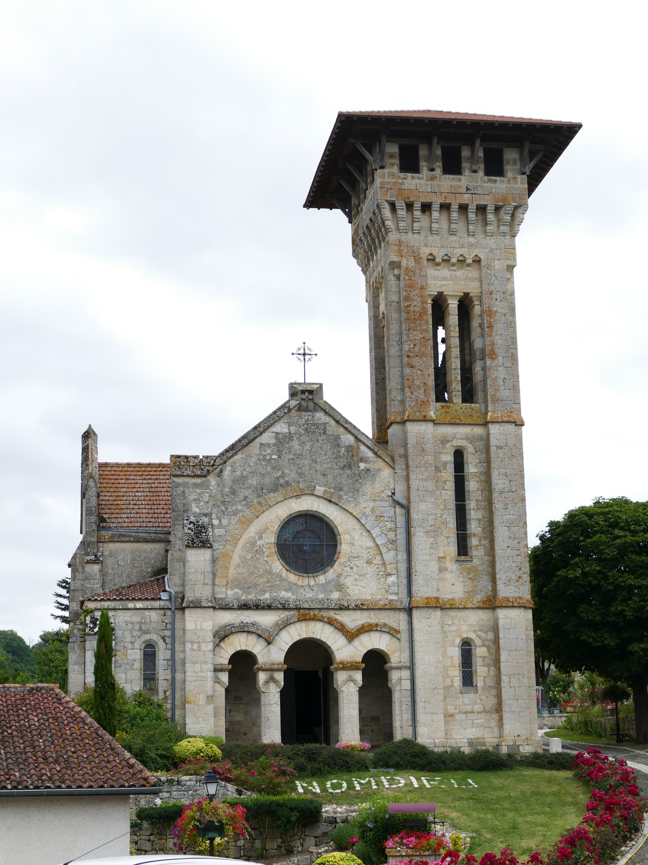 Saint-John-the-Baptist's church in Nomdieu (Lot-et-Garonne, Aquitaine, France).